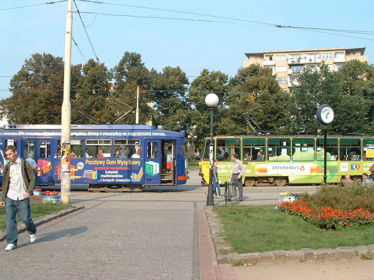 Streetcars in Szczecin Photograph taken by Gakuro